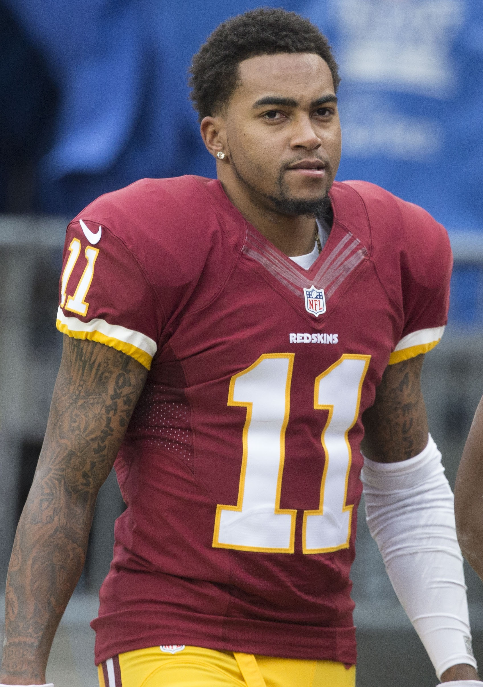 Buccaneers at Redskins 11/16/14